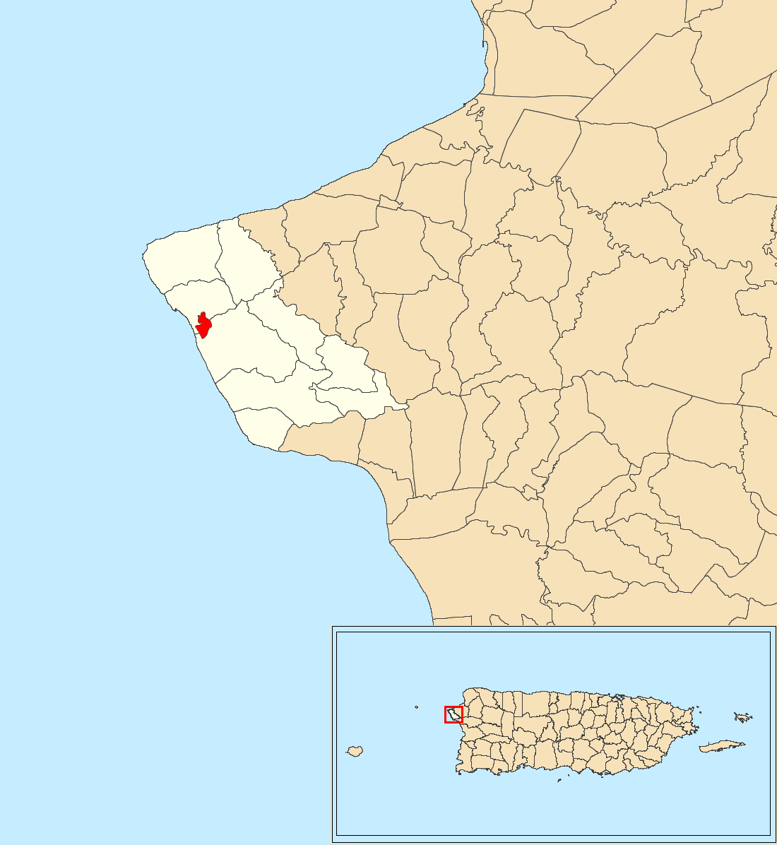 Rincón barrio-pueblo, Rincón, Puerto Rico locator map